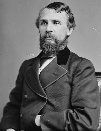 Horace B. Smith, Congressman from New York